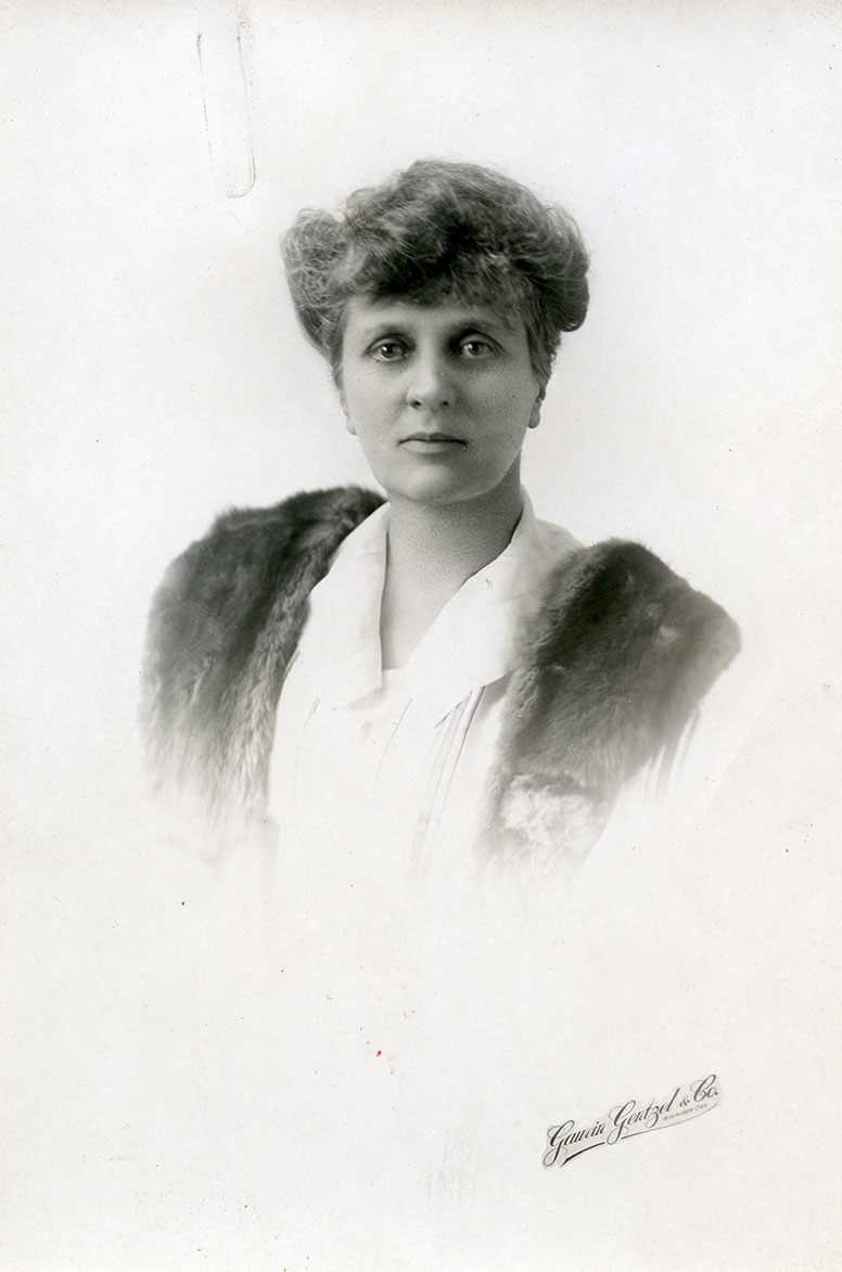 Gauvin Gentzel Co., Winnipeg A portrait of United Farm Women of Alberta president, UFA MLA, activist, and diplomat Irene Parlby of Alix. Irene Parlby became involved in women's organizations in 1913 when she was appointed secretary of the Alix Country Women's Club. One of her accomplishments in this role was the founding of a local library; she had solicited the books from a newspaper advertisement and friends in England. In 1915 Irene and other members of the Alix club went on to establish the first United Farm Women of Alberta (UFWA) local in Alix. A year later Irene Parlby became president of the UFWA and then in 1919 became the first woman officer of the United Farmers of Alberta. In her inaugural report as a member of the UFA Executive Mrs. Parlby stated: "Neither men nor women know everything; women know many things that men do not know, men know many things that women do not know. Men and women together know everything that is known." In 1921, she was elected to the provincial legislature as a member of the UFA and appointed Minister without Portfolio in the new UFA government. She was the second woman in Canada to become a provincial cabinet minister. Irene Parlby was also one of the "Famous Five", the group of women who worked for suffrage, property rights and the right for women to be legally judged as "Persons" in Canada. In 1930 she was became one of three Canadian delegates to the Assembly of the League of Nations. Mrs. Parlby retired from politics in 1935. To see more historic UFA materials, visit the United Farmers Historical Society at .